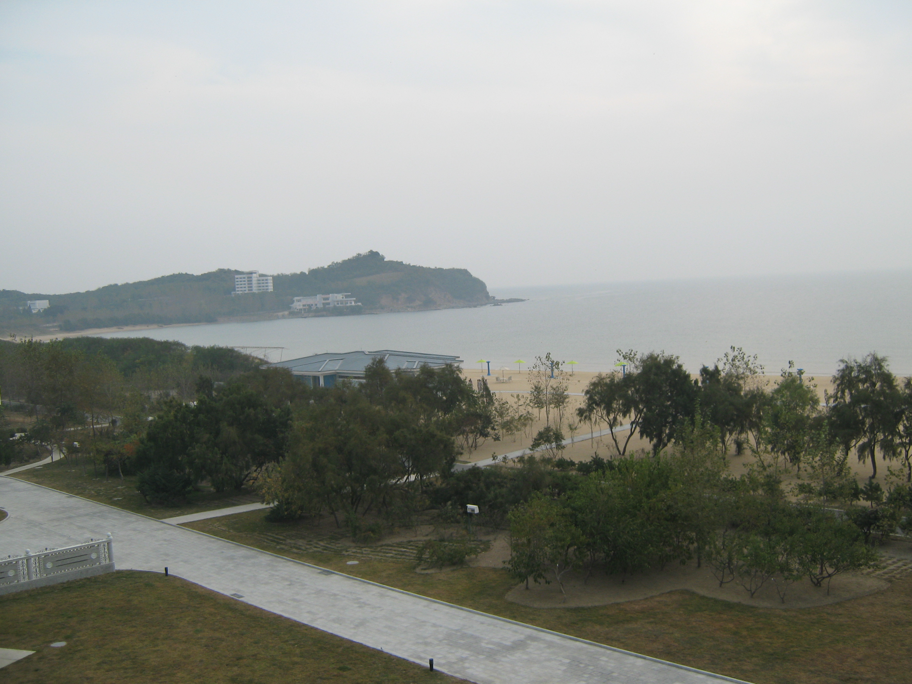 View from the Ma Jon Hotel